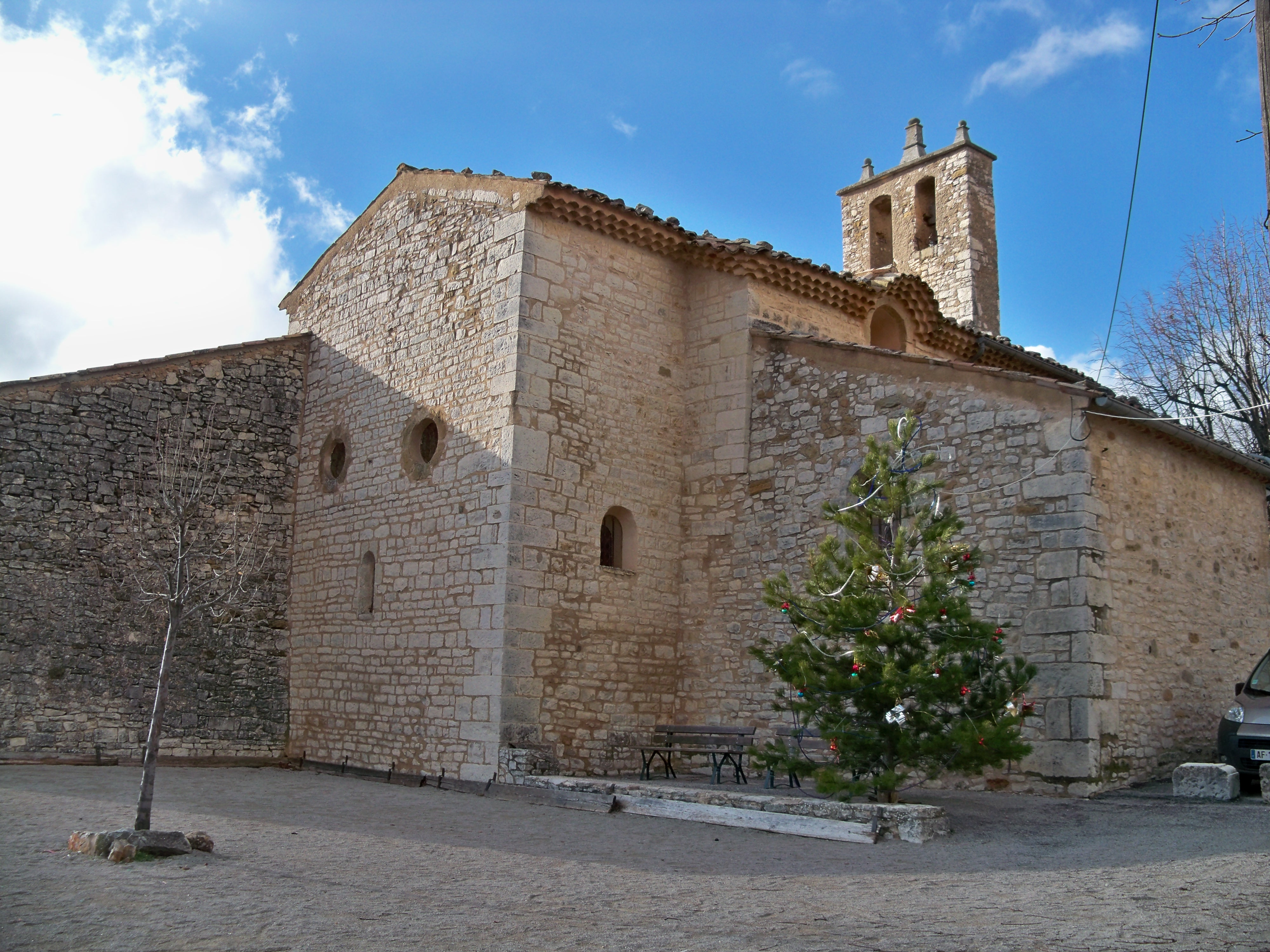 Sainte Anne Church in Lardiers, Alpes de Haute Provence, France